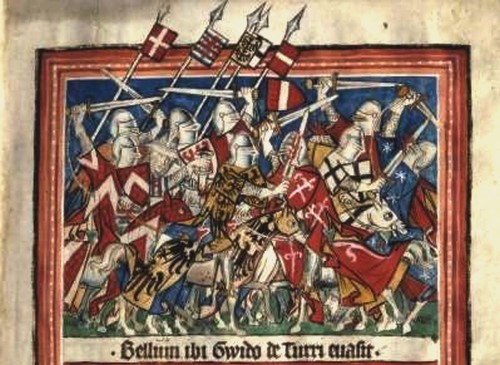 Balduineum